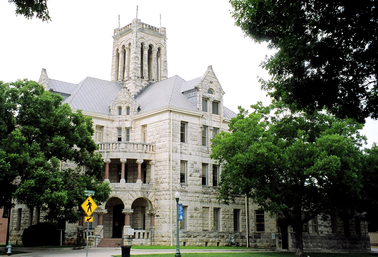 The Comal County Courthouse in New Braunfels, Texas, United States was built in 1898 using romanesque style design and was listed on the National Register of Historic Places on December 12, 1976.